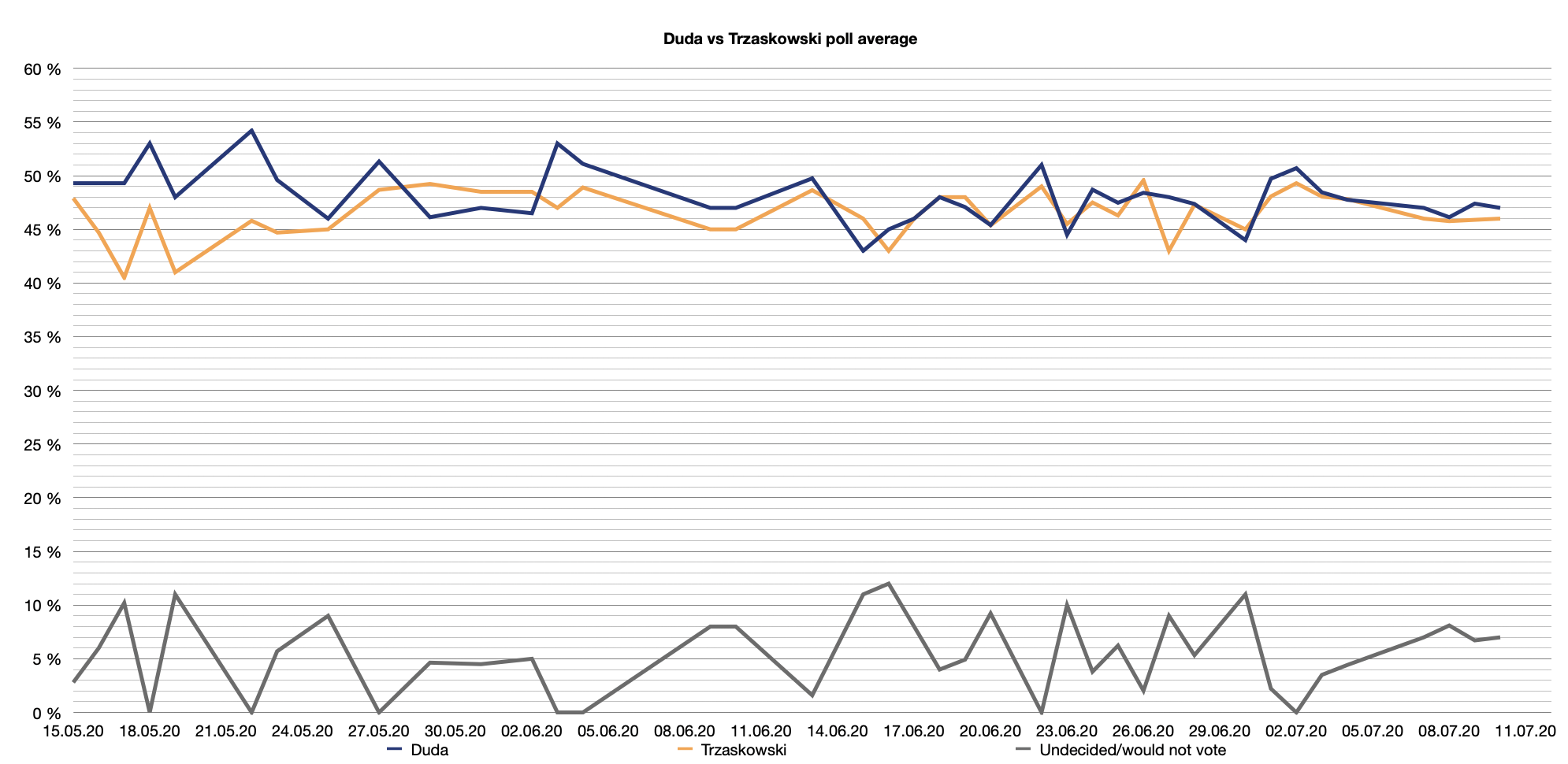 Duda vs Trzaskowski polls average